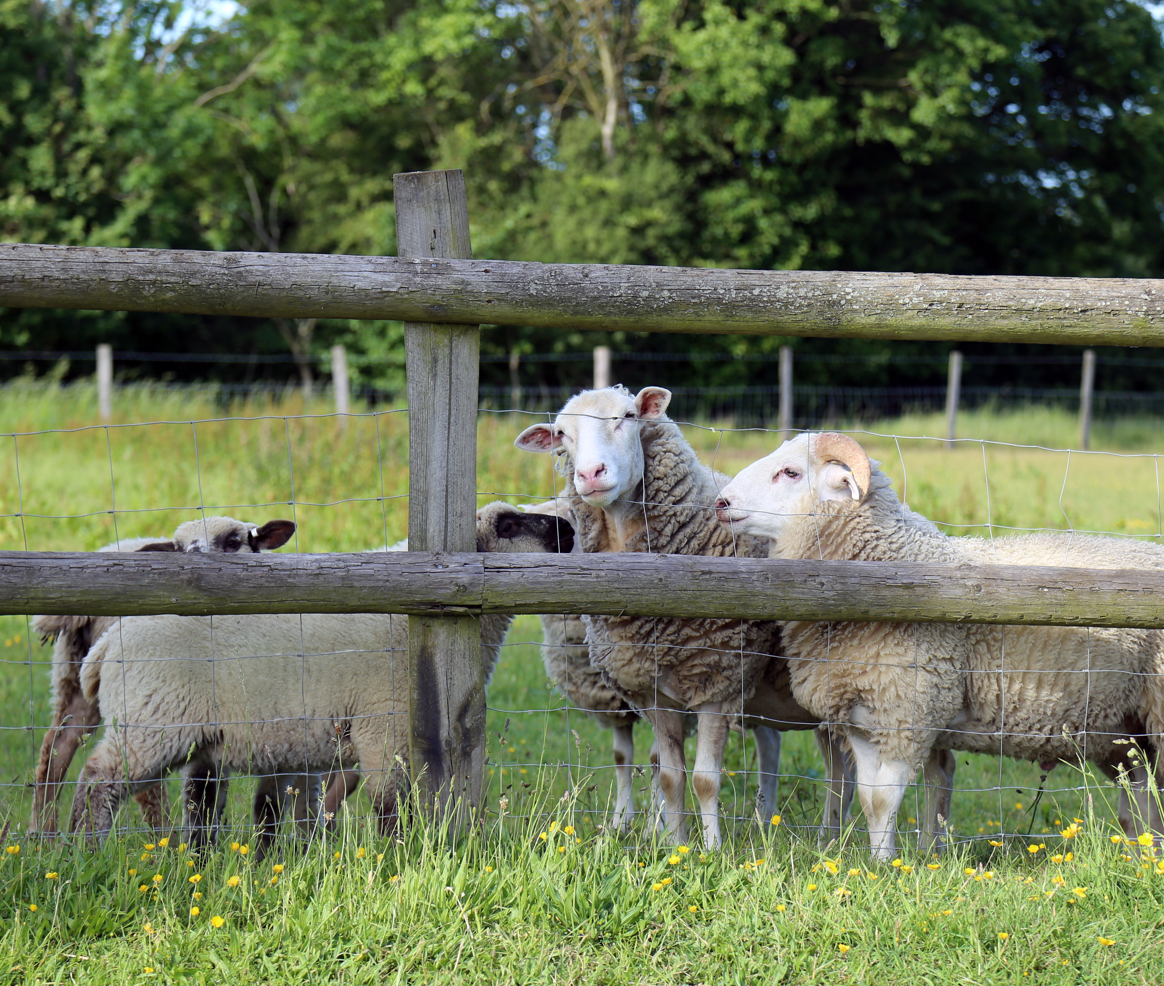 Adult sheep and lambs in a grassy fenced close with wild buttercups on Tituswell Lane west from Good Easter village, Essex, England.